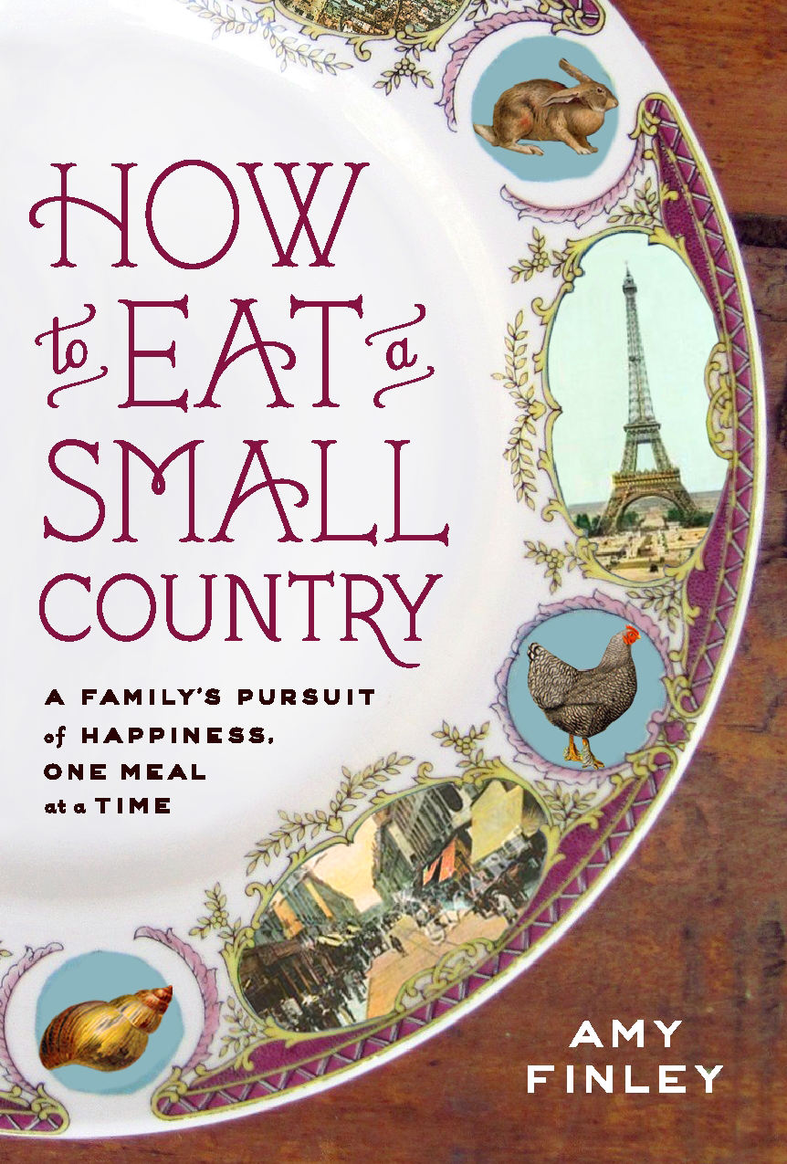 Front jacket picture of the book "How to Eat a Small Country" by Amy Finley